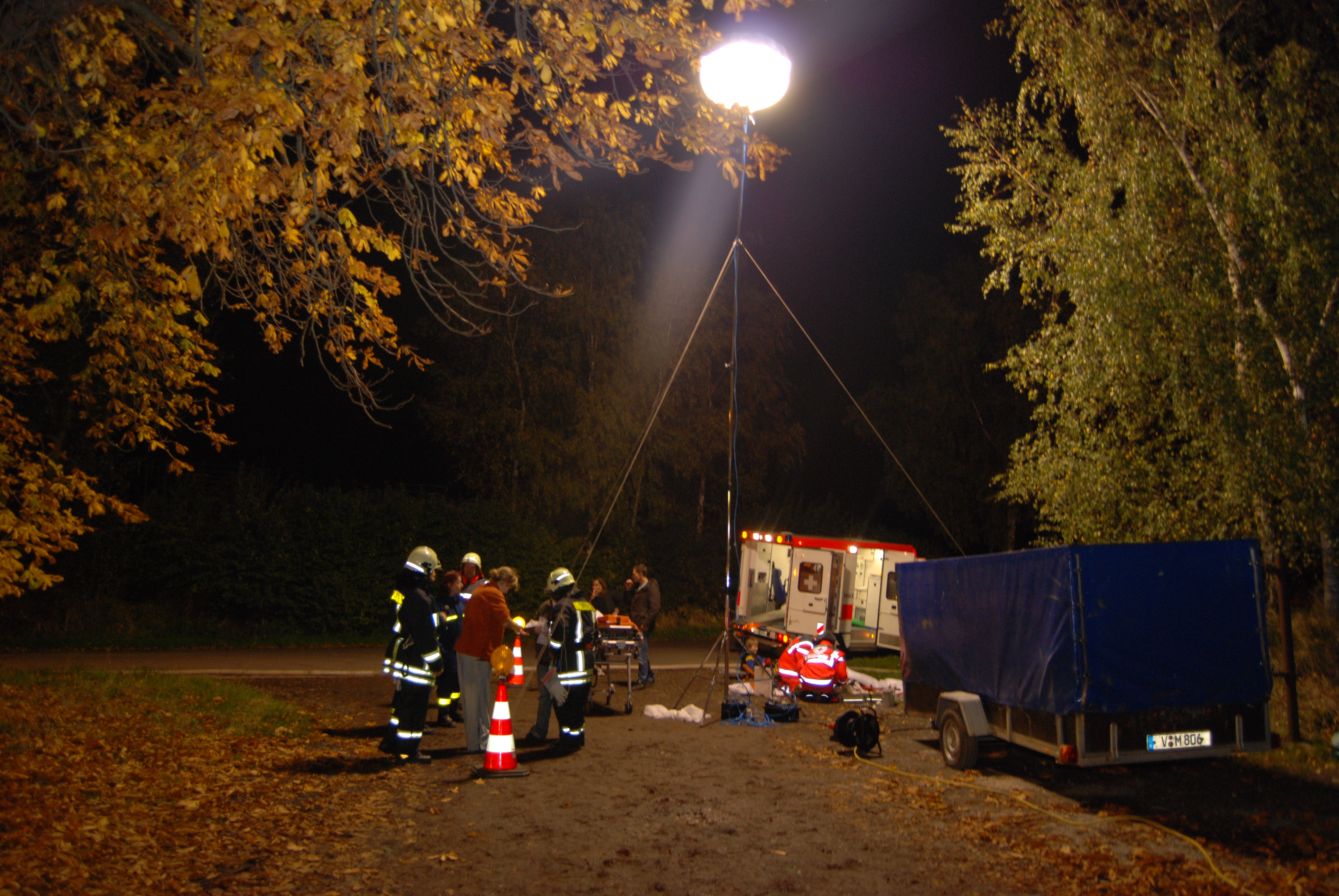 Powermoon lighting balloon at rescue site (training)